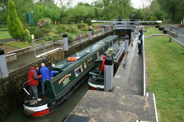 Shifford Lock, River Thames, Oxfordshire: two narrowboats side by side.